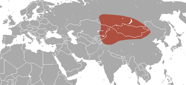 Siberian Shrew (Crocidura sibirica) range